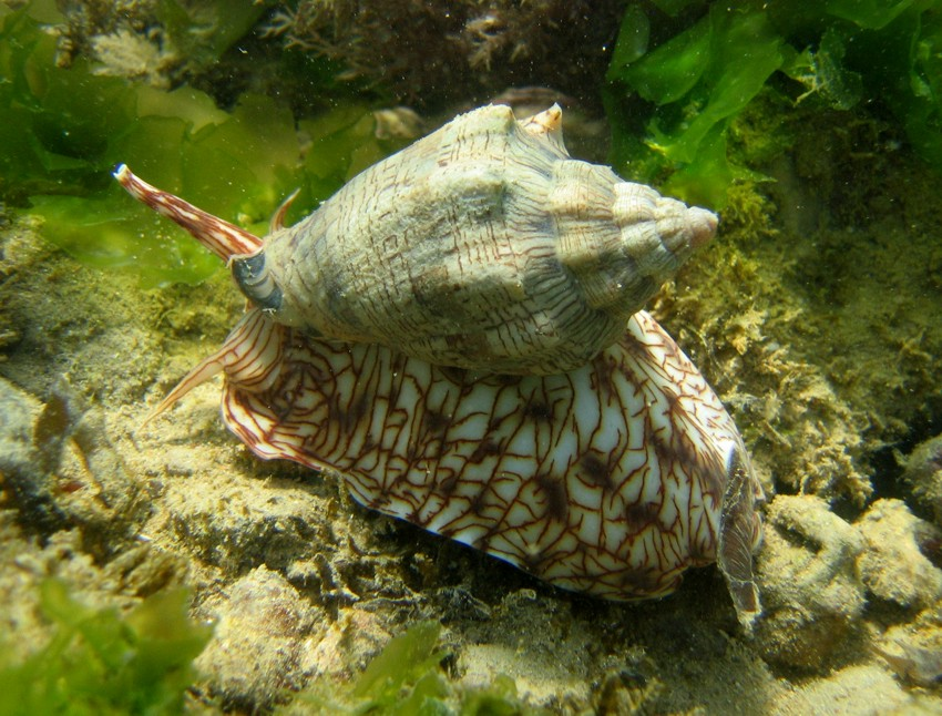 A Hebrew volute, Voluta ebraea in its natural habitat.